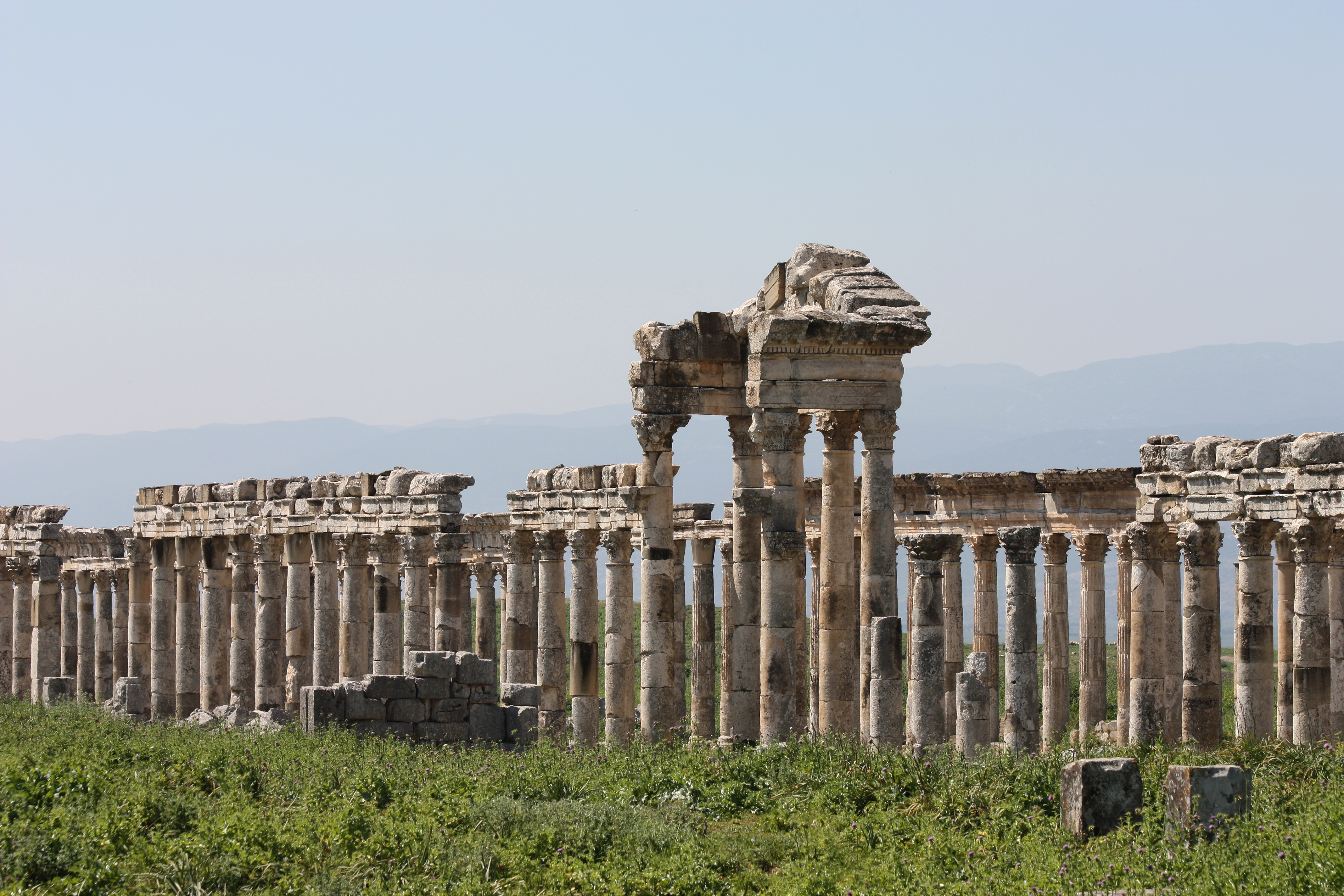 The cardo of Apamea, seen from the Roman baths.